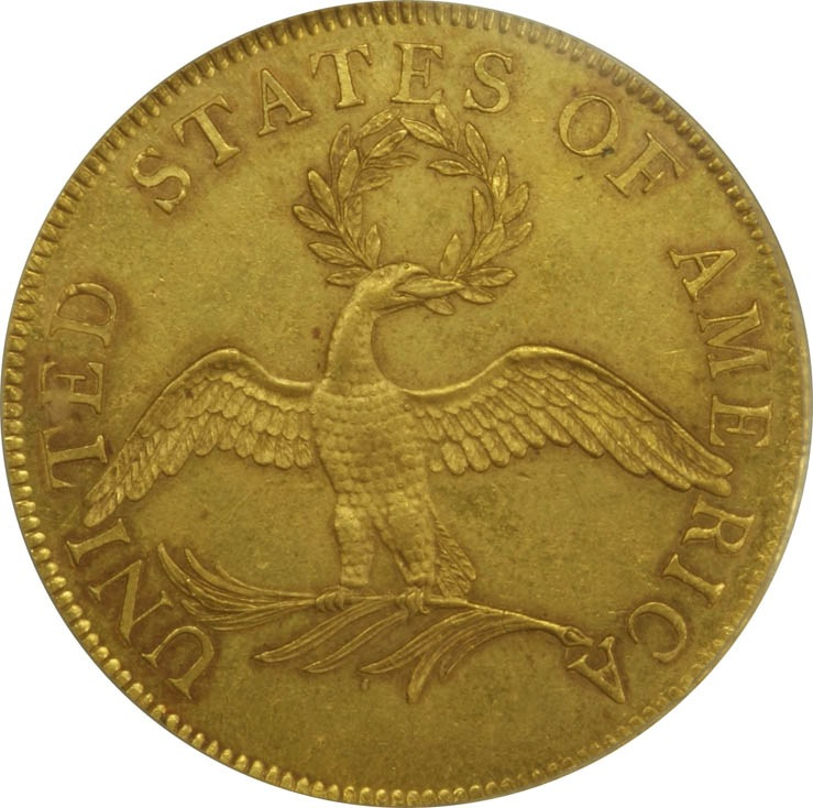 Obverse of 1796 eagle